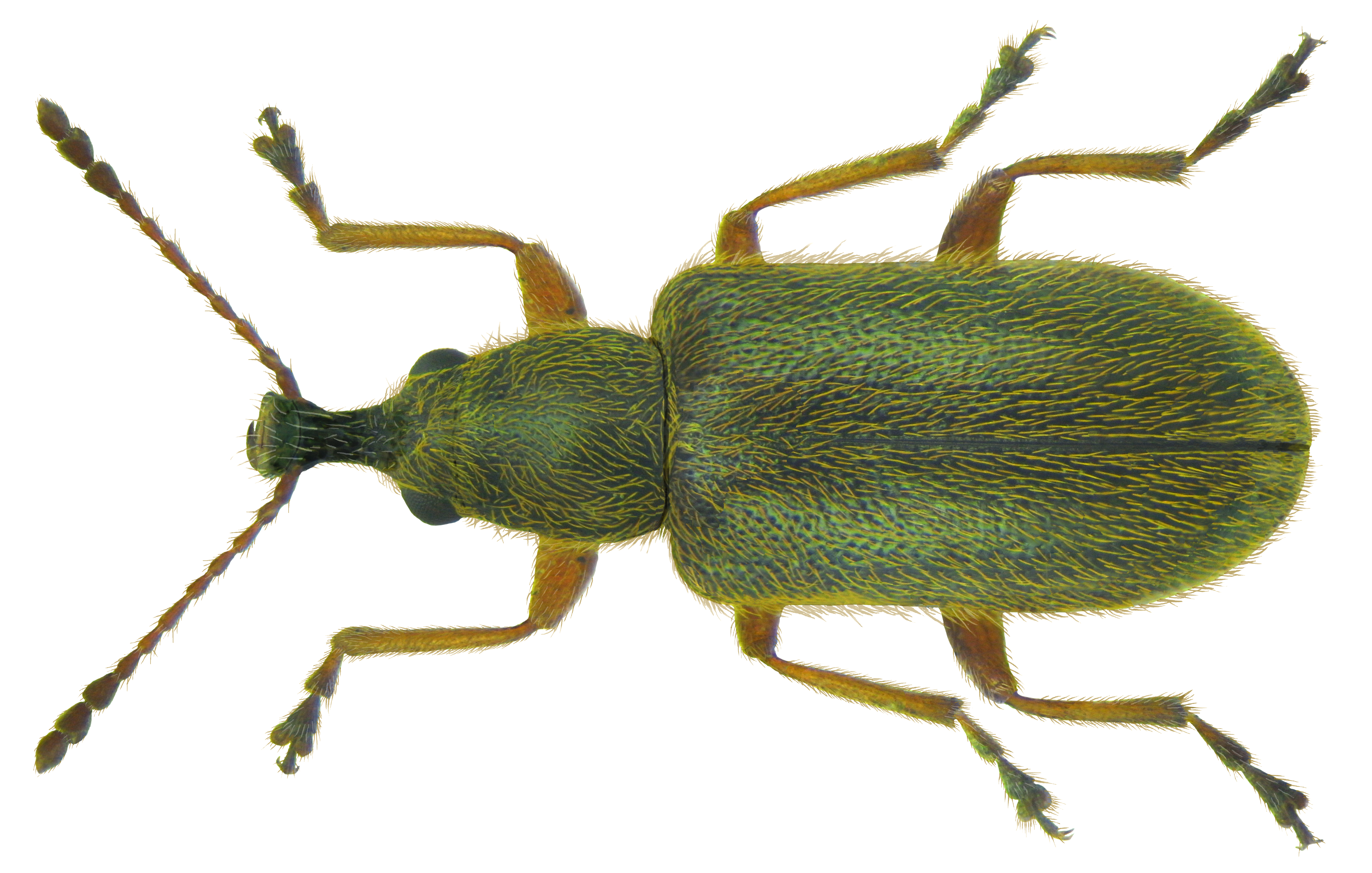 Family: Cimberidae Size: 3-5 mm Origin: Europe, Asia Mino Ecology: development in the male buds Location: Germany, Bavaria, Upper Franconia, Kulmbach leg. det. U.Schmidt, 8.IV.1981 Photo: U.Schmidt, 2012